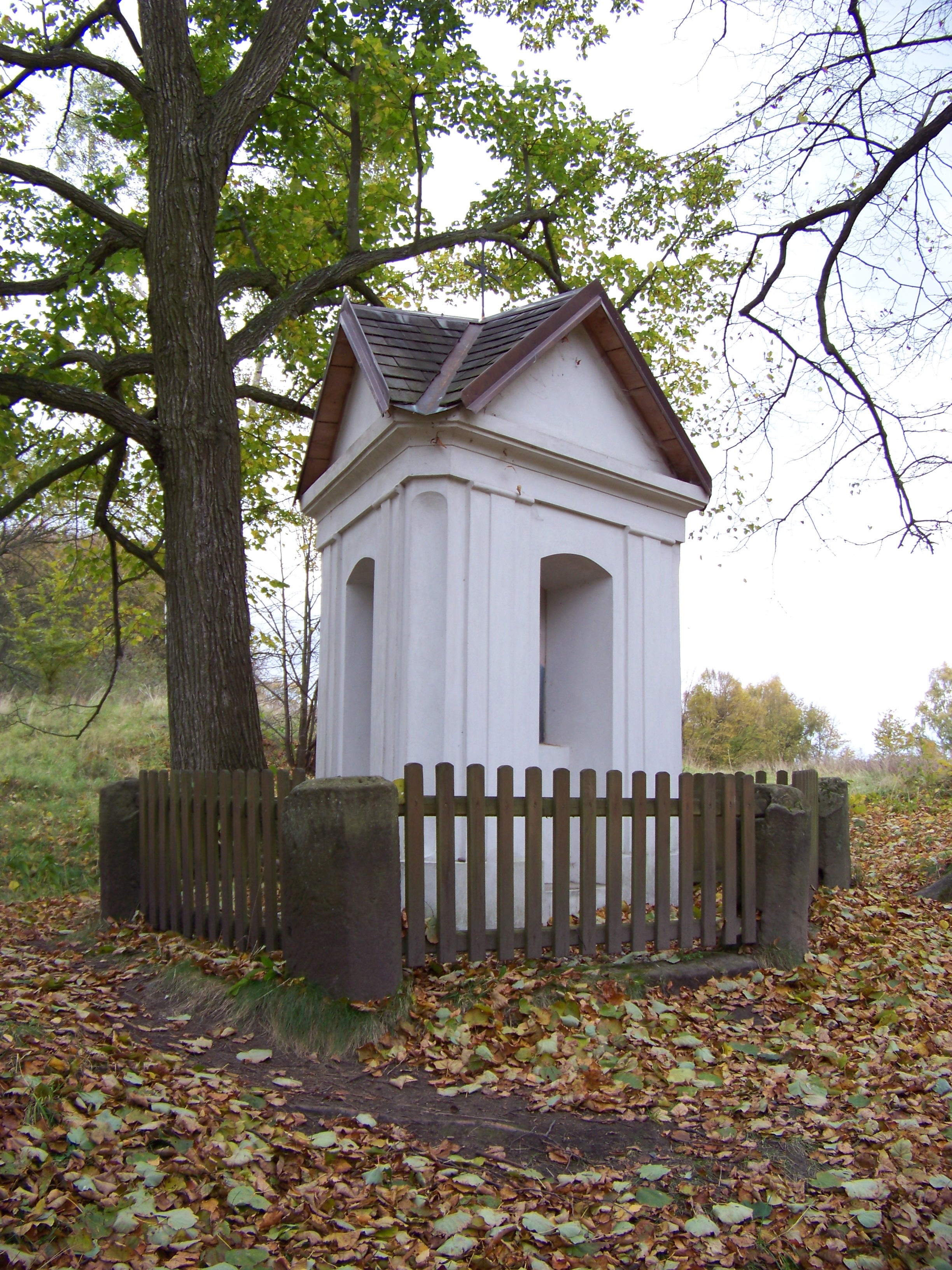 Holy Trinity chapel near Houska, Česká Lípa District, Liberec Region, the Czech Republic. Restaurated 2004. - Google Maps - Google Earth